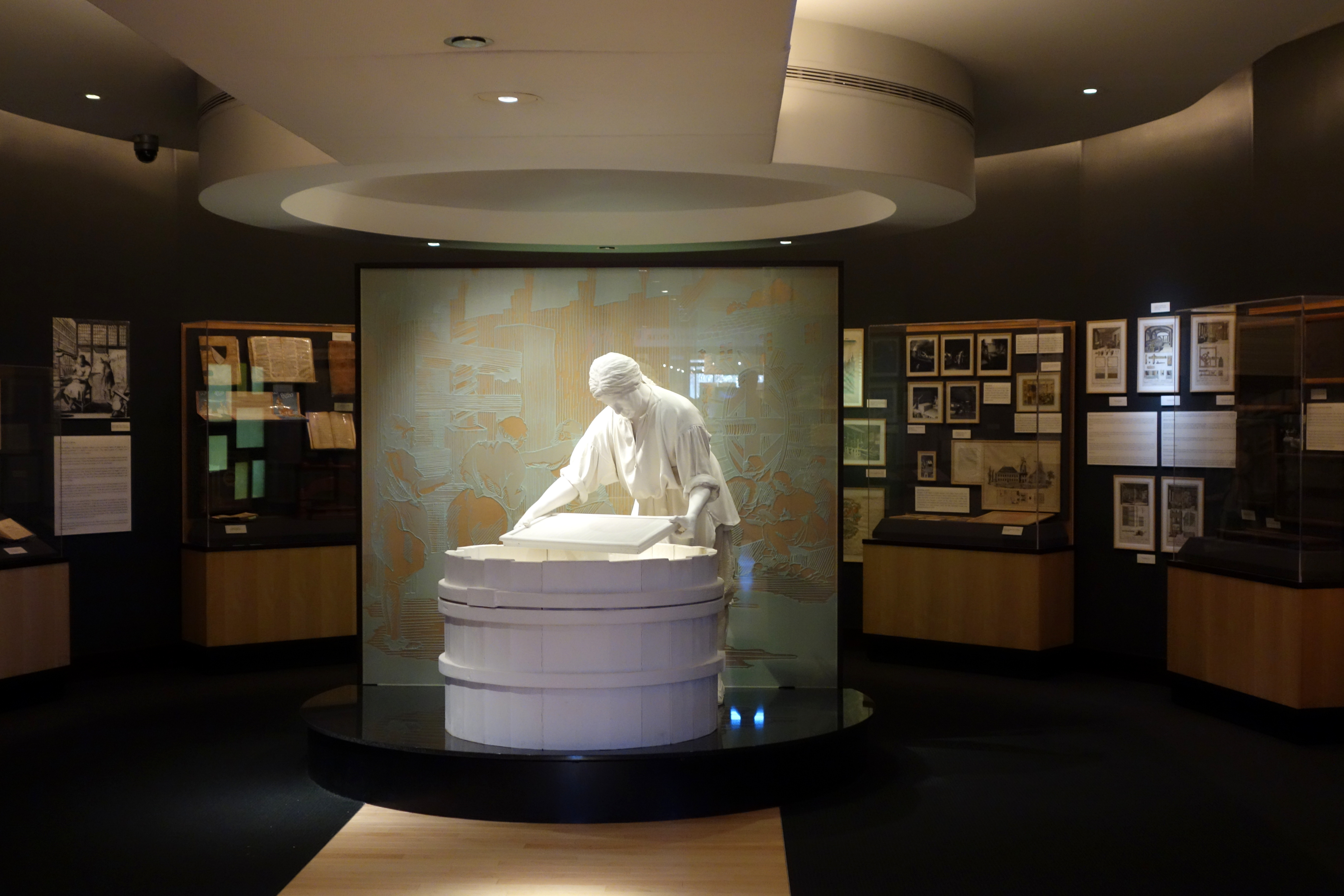 Exhibit in the Robert C. Williams Paper Museum, Atlanta, Georgia, USA. This work is old enough so that it is in the public domain.